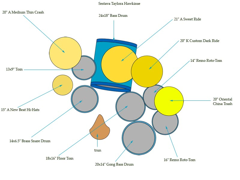 Taylor Hawkins drum configuration.